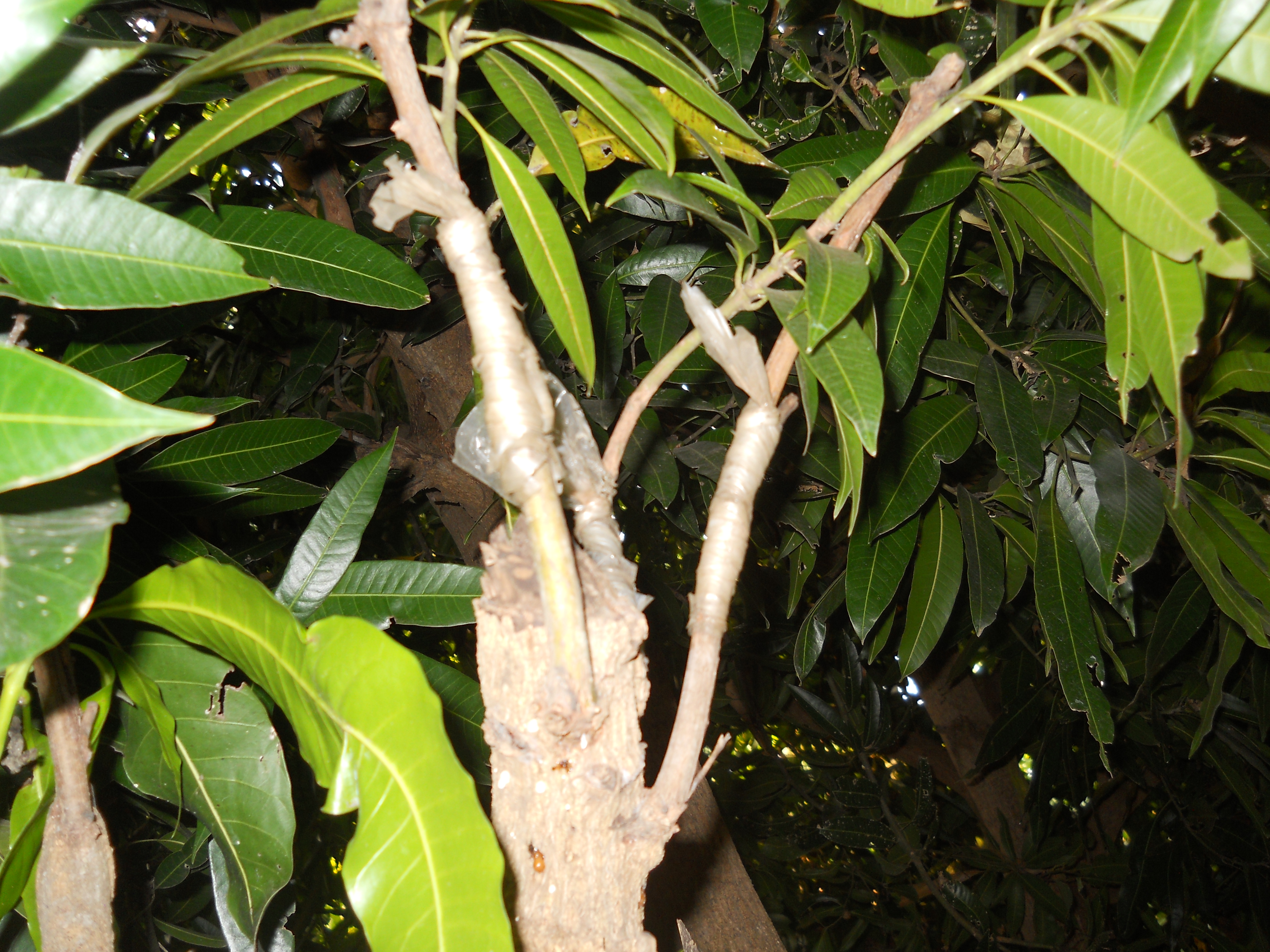 Top Working in Mango Tree (Vinjamoor, Nellore District, A.P)